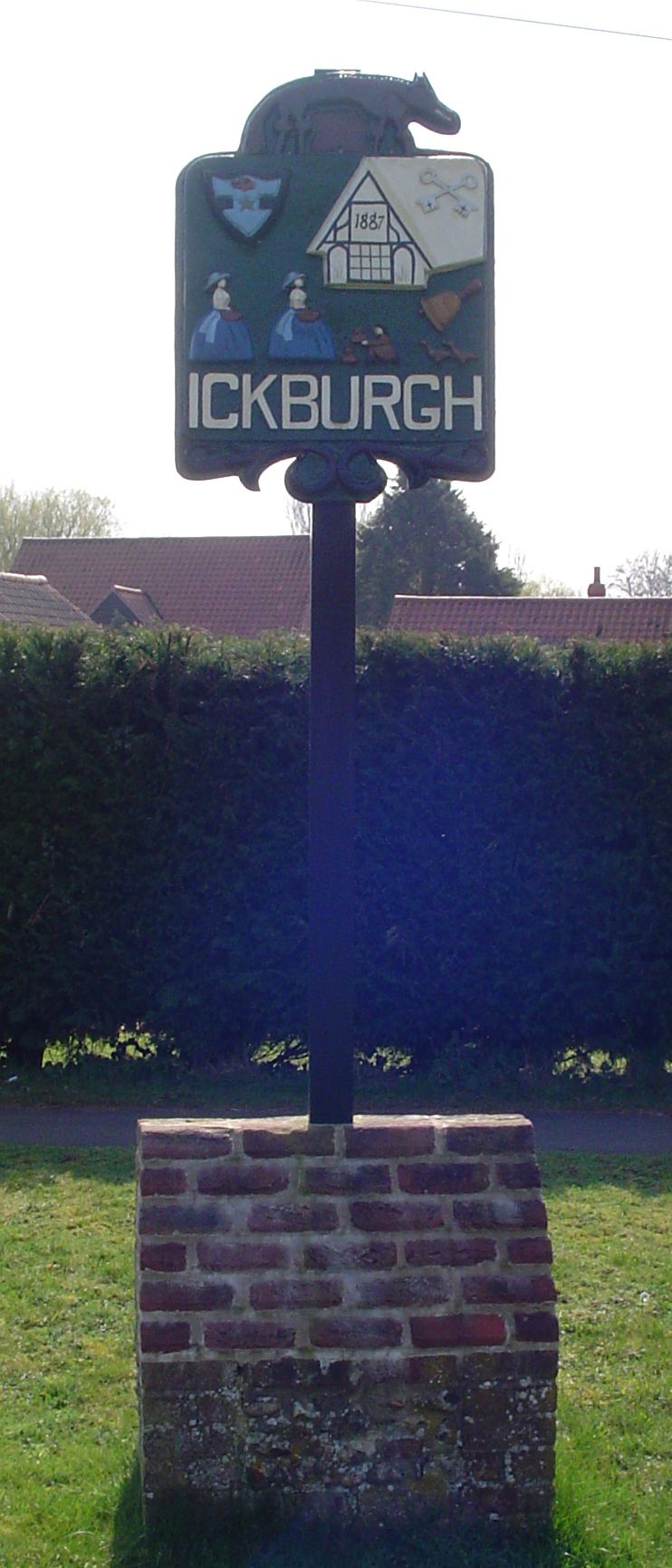 Signpost in Ickburgh